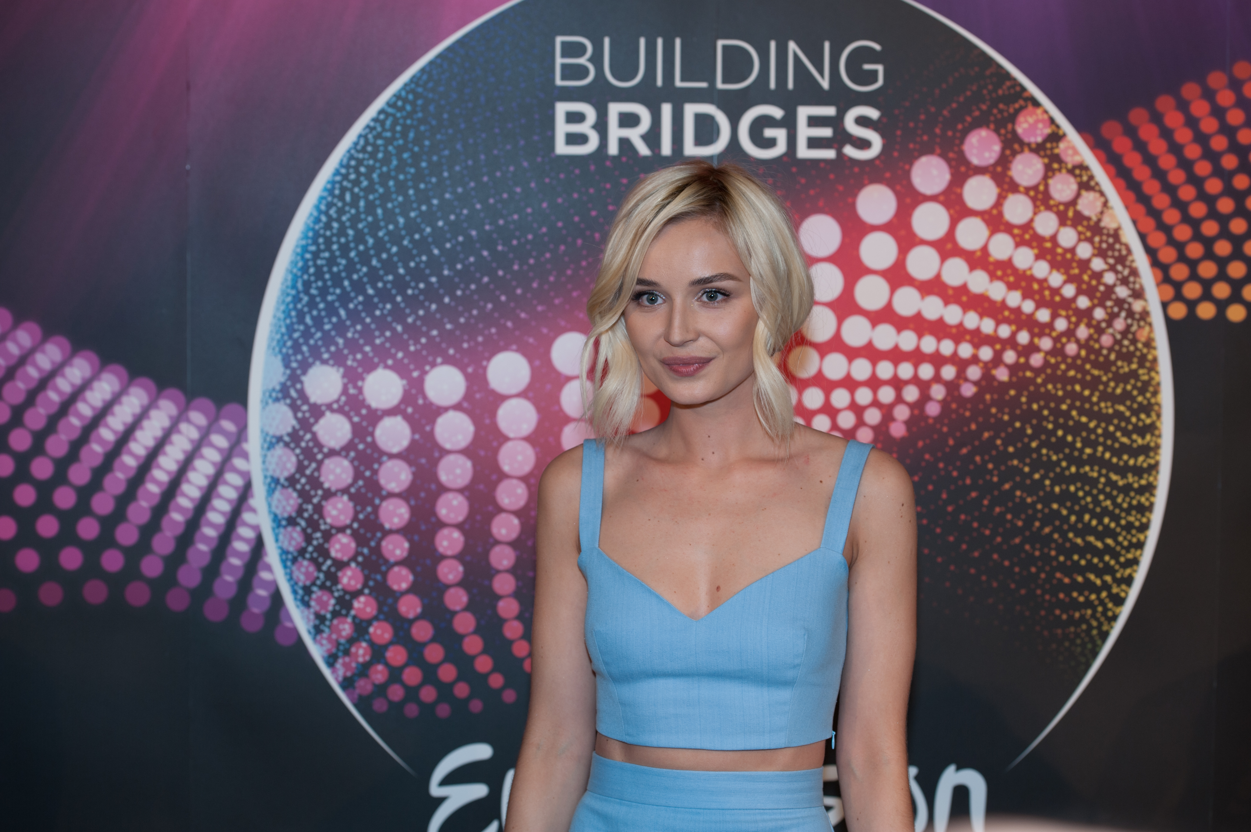 Eurovision Song Contest Vienna 2015: Polina Gagarina